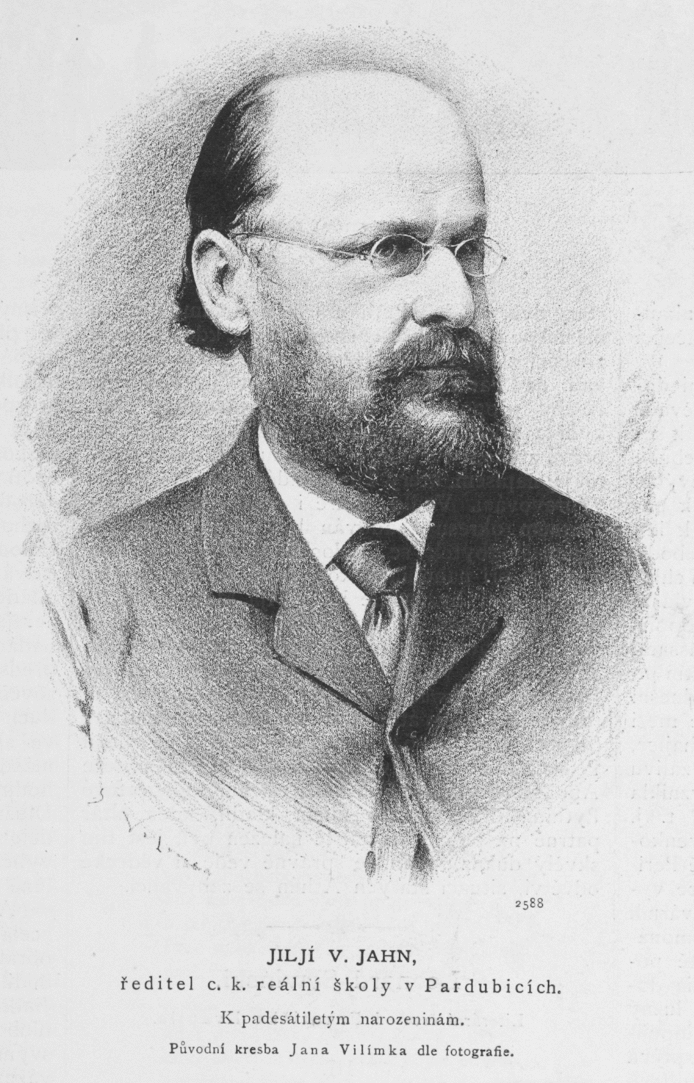 Portrait of Jiljí Vratislav Jahn (1838-1902), Czech high school teacher, chemist, poet and politician.